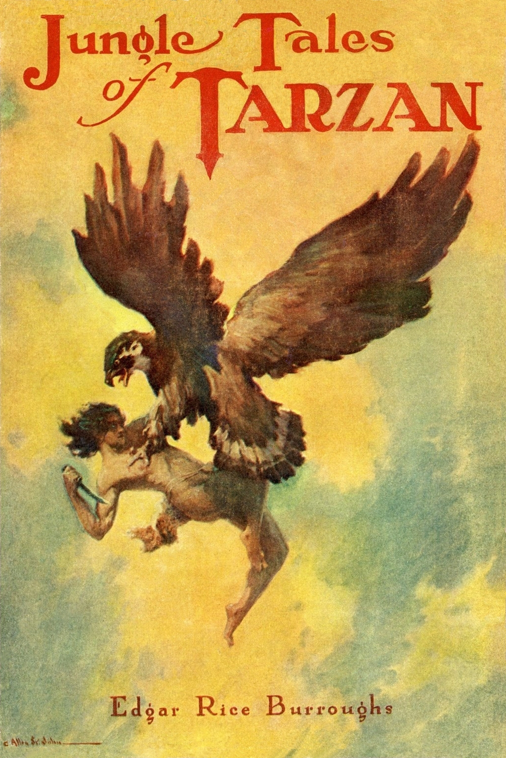 Dust-jacket illustration for Jungle Tales of Tarzan by Edgar Rice Burroughs for illustration of an article